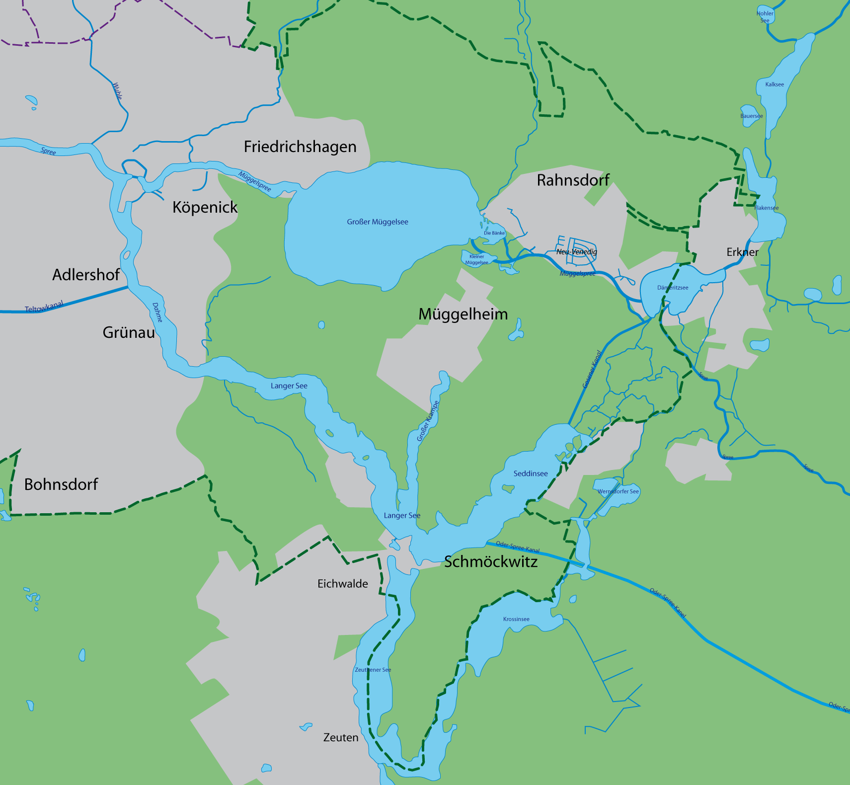 Author: Felix Hahn Source: Based on Water map of Berlin. Description: Map of the lake district in south east Berlin.